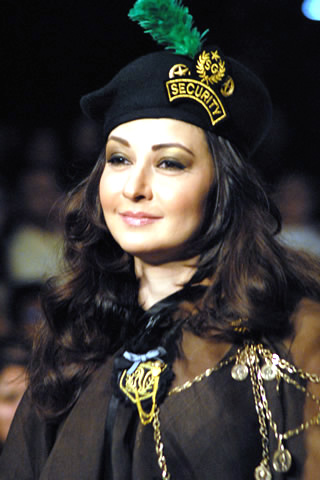 Day 4 collection at PFDC Sunsilk Fashion Week Karachi 2010. The collection drew inspiration from two of the constant forces at play in Pakistan, thus the tongue-in-cheek title of the collection, and hence was especially inspired by the Pakistani Army.